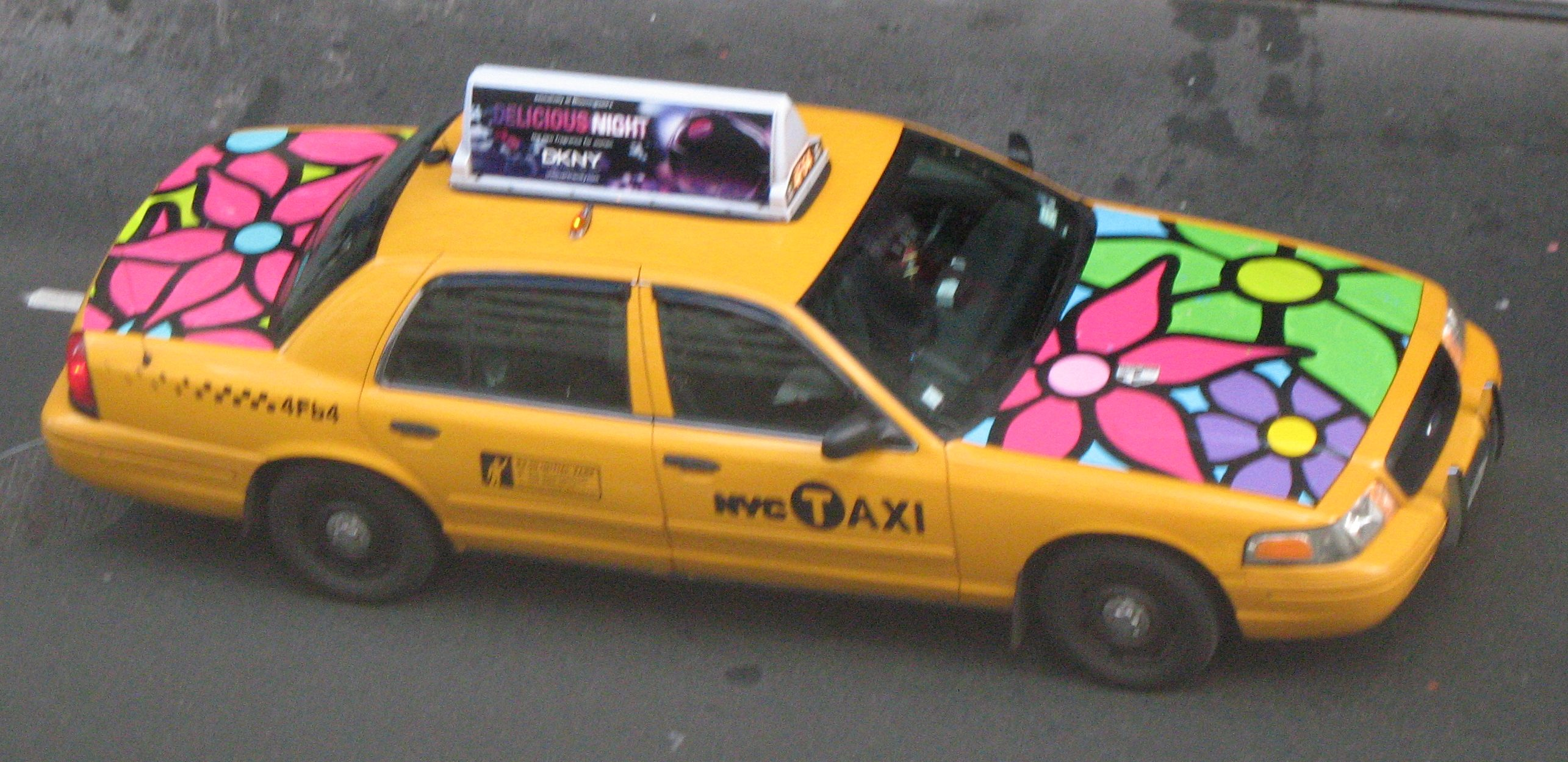 Flower Taxi in New York City